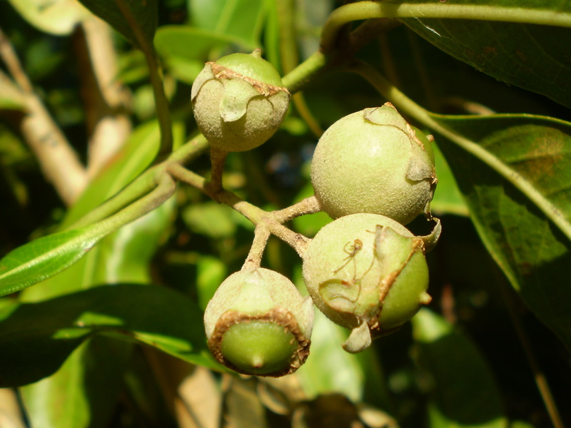 'native guava', fruit.